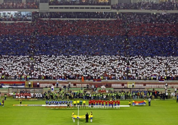 Serbian national soccer team